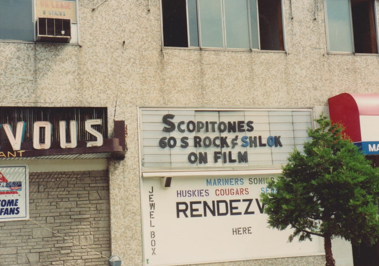 Photo of the marquee of the Jewel Box Theatre Seattle 1991